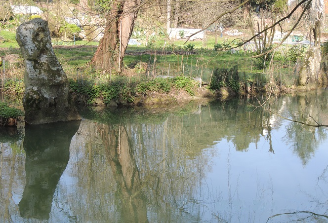 Menhirs de la Haute-Borne, in the water, on the right bank of the river Yerres with their reflections onto it .